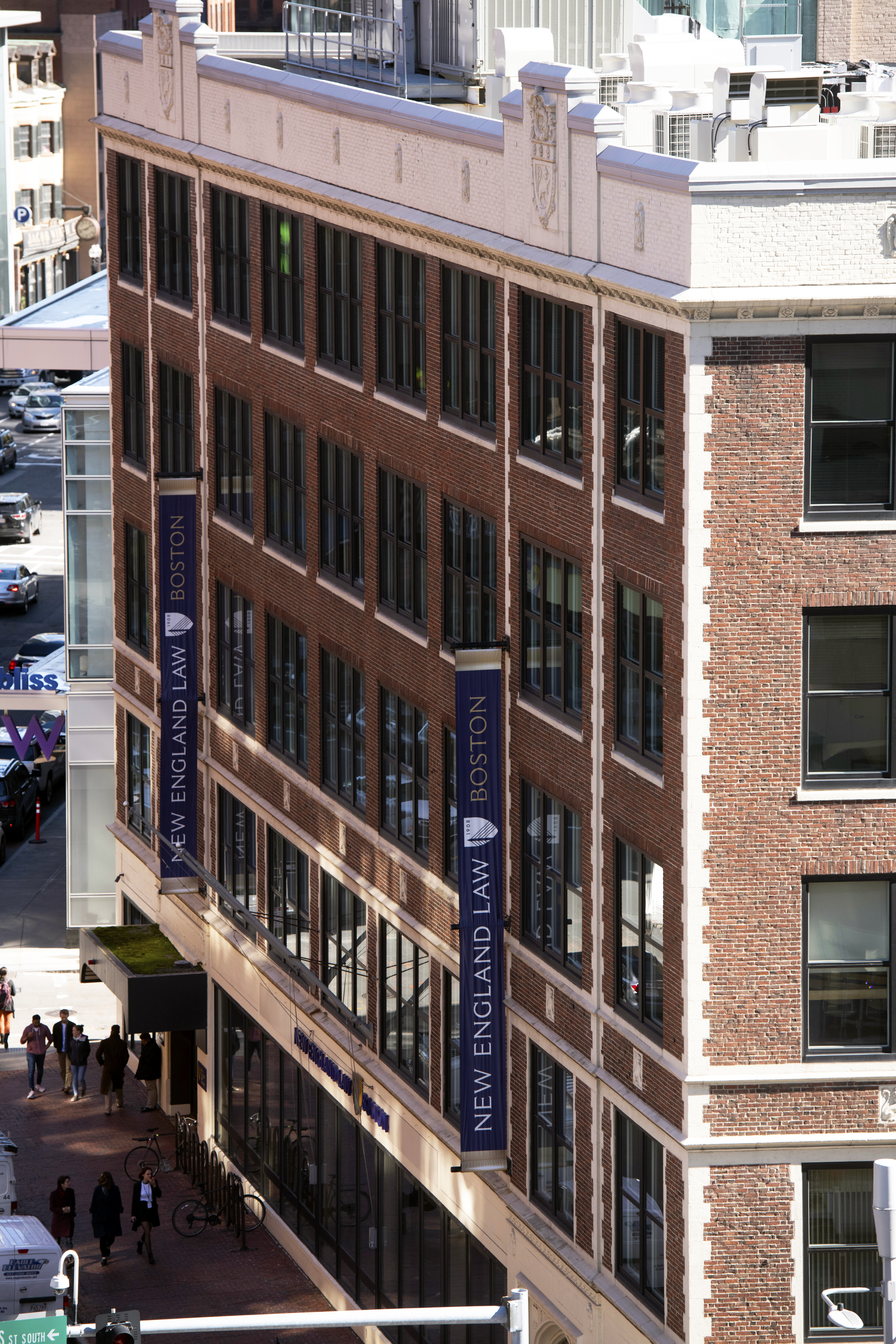 Boston main building on Stuart Street